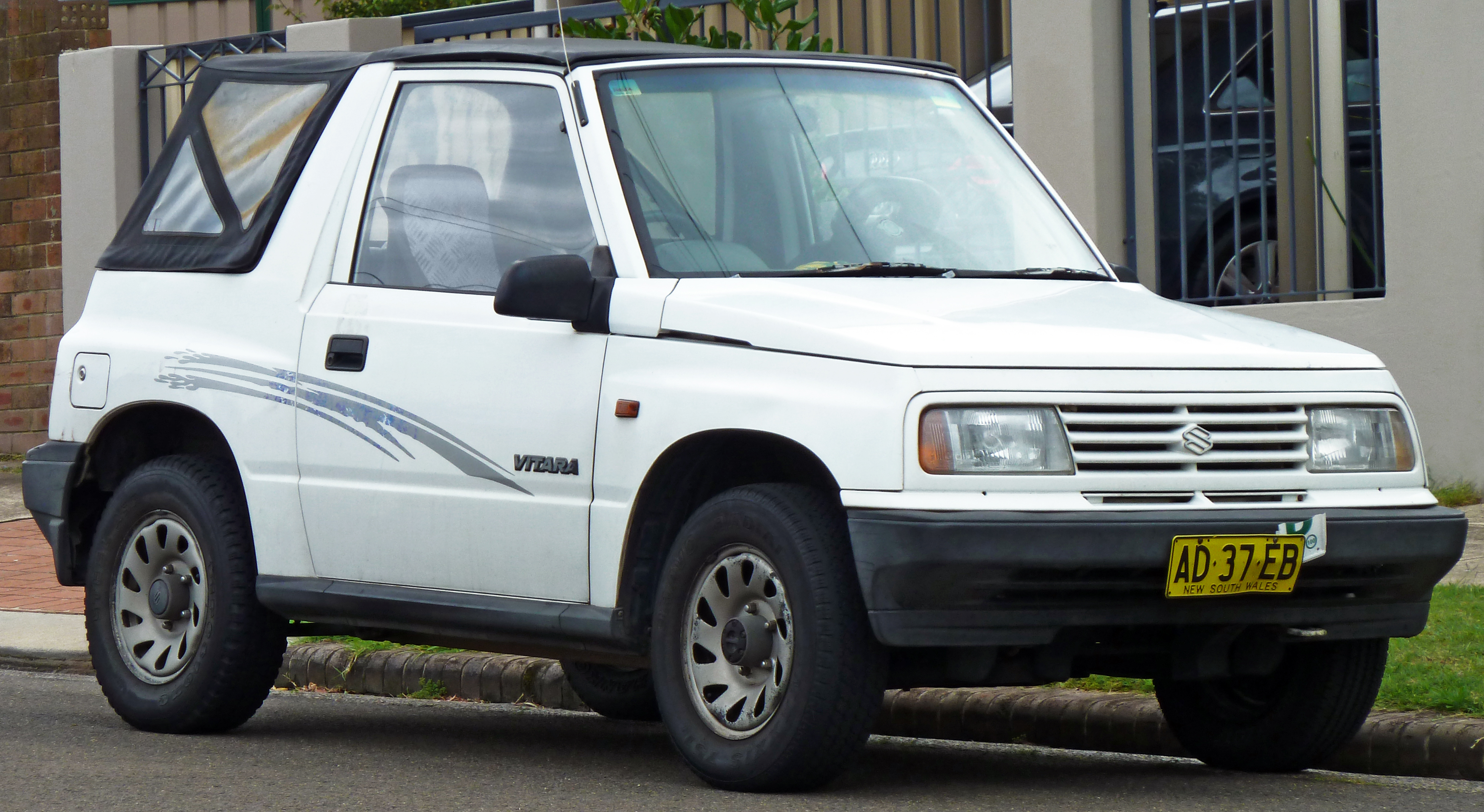 1994 Suzuki Vitara (SE416C Type2) JX softtop. Photographed in Sans Souci, New South Wales, Australia.